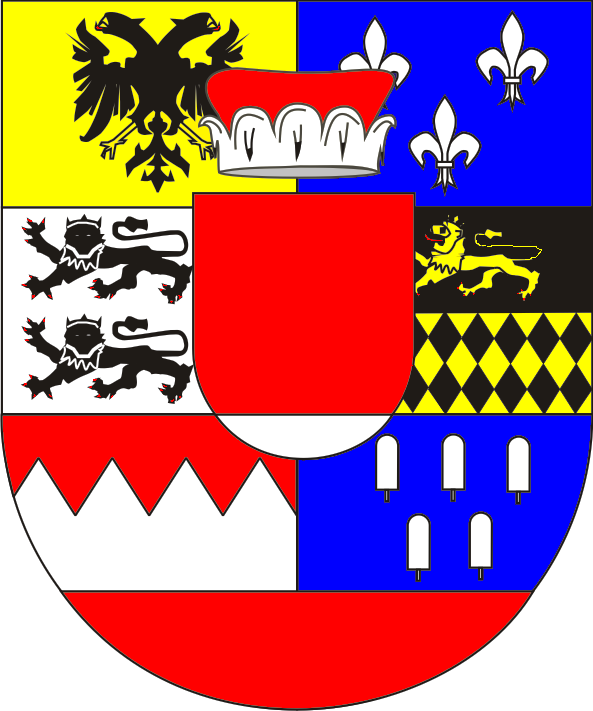 coats of arms of Hohenlohe-Bartenstein 1. Holy Roman Empire; 2. unknown; 3. county of Hohenlohe; 4. county of Langenburg; 5/6: county of Limpurg; heart: relict of duchy of Franconia